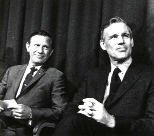 Governors John A. Volpe and Francis W. Sargent, ca. 1970